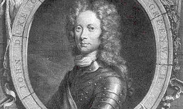 He's Richard Kane